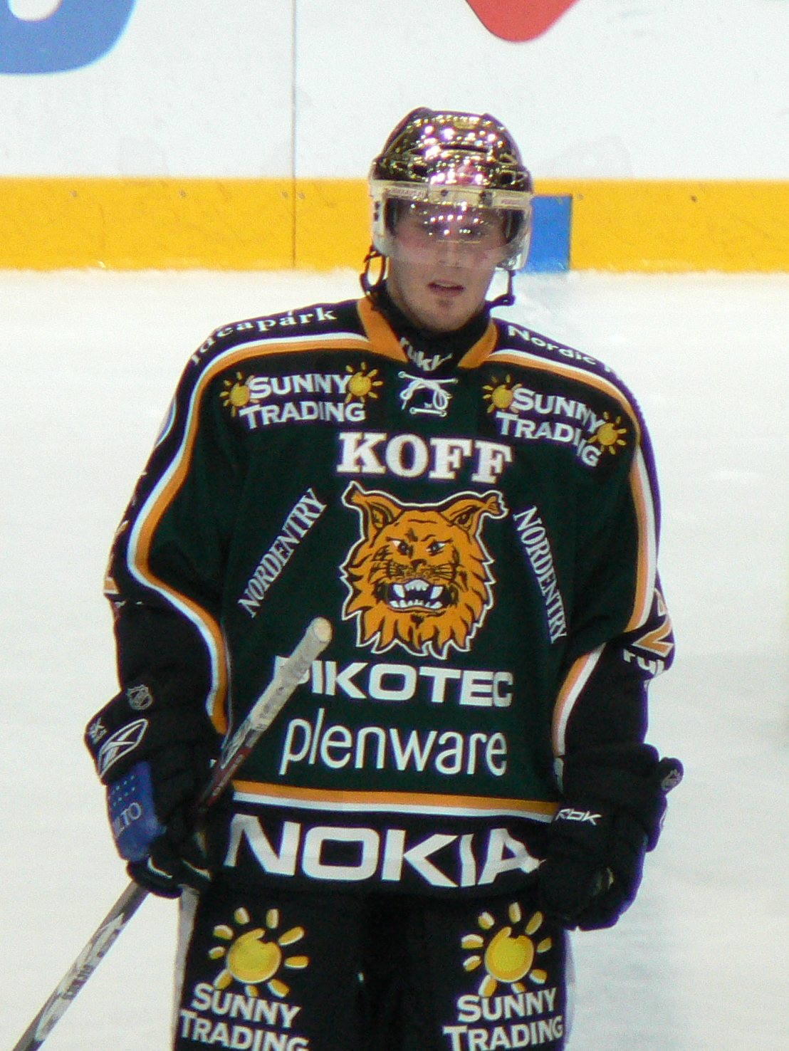 Finnish ice hockey winger Toni Koivisto playing for Ilves Tampere in September, 2007.